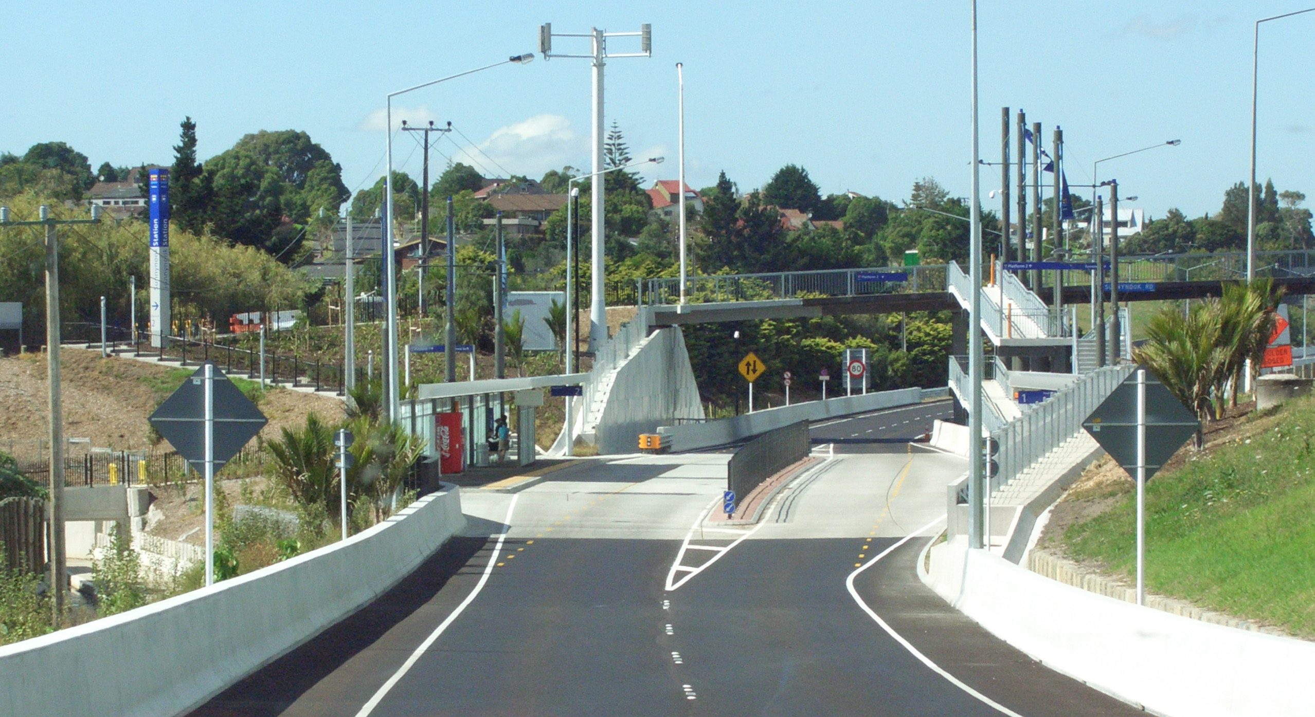 Auckland's Northern Busway adjacent to the Northern Motorway, State Highway 1. Sunnynook station, viewed looking south. The barrier in the centre is to discourage users from crossing the busway at the station. Sunnynook station has north and south express platforms only, although bus stops on the adjacent street and bridge are nominally 'platforms' of the station.